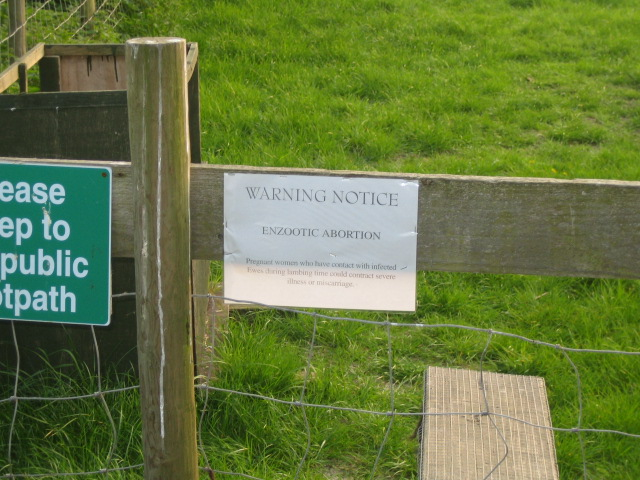 Warning notice near Spring Hill, Grendon Underwood. This notice fixed to the fence adjoining a field of sheep on the slopes of Spring Hill, 434710, warns of enzootic abortion which is a disease of sheep caused by an organism called Chlamydophila abortus, and which can cause abortion and the birth of weak and sickly lambs that may die soon afterwards. The organism can be carried on boots and clothing and can affect humans, hence the warning 'pregnant women who come in contact with infected ewes during lambing time of severe illness or miscarriage'. The number of reports however of these infections and human miscarriages resulting from contact with sheep are extremely small, but farmers have a responsibility to minimise the risks to pregnant women.